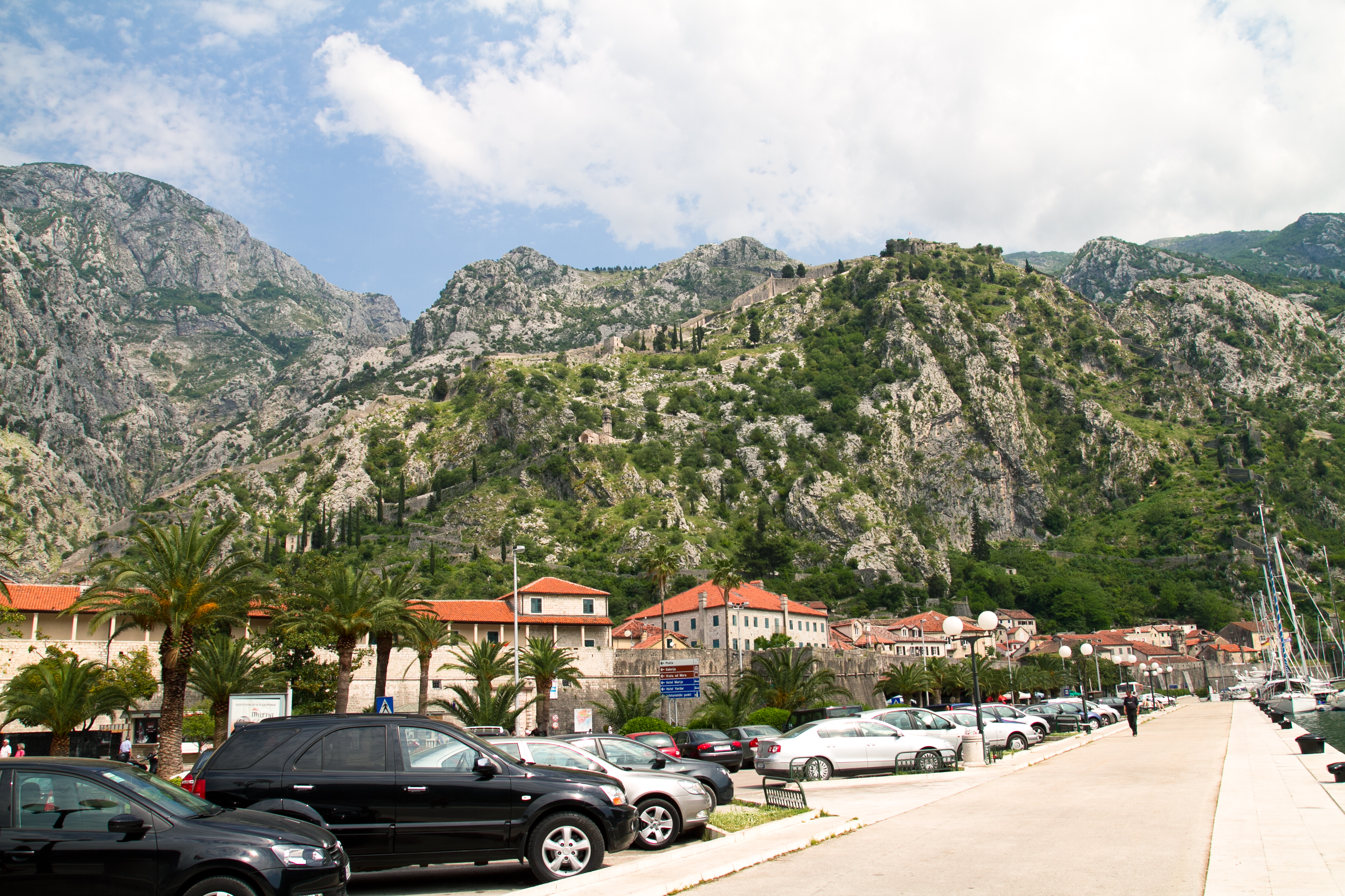 Kotor city walls